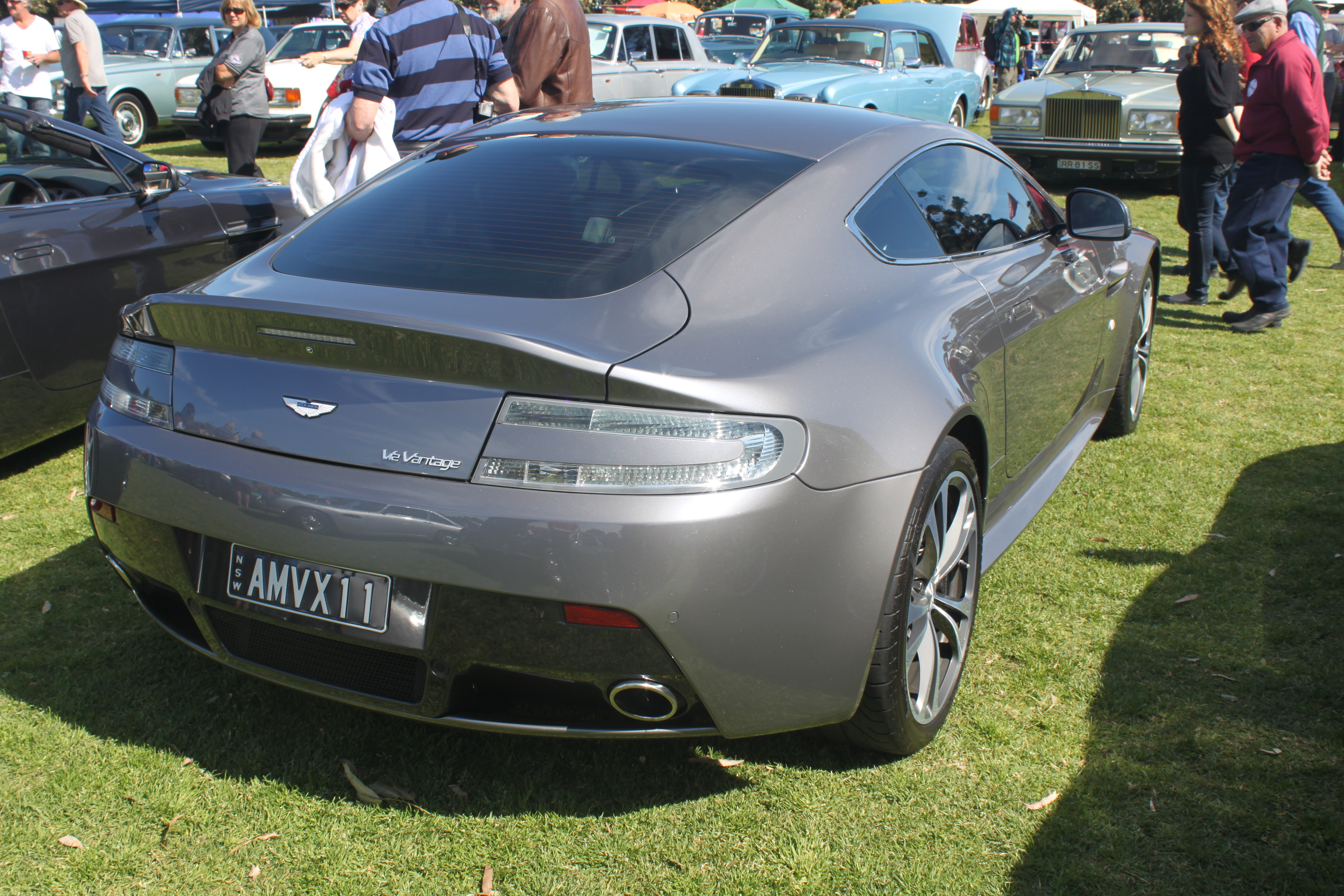 Aston Martin V12 Vantage